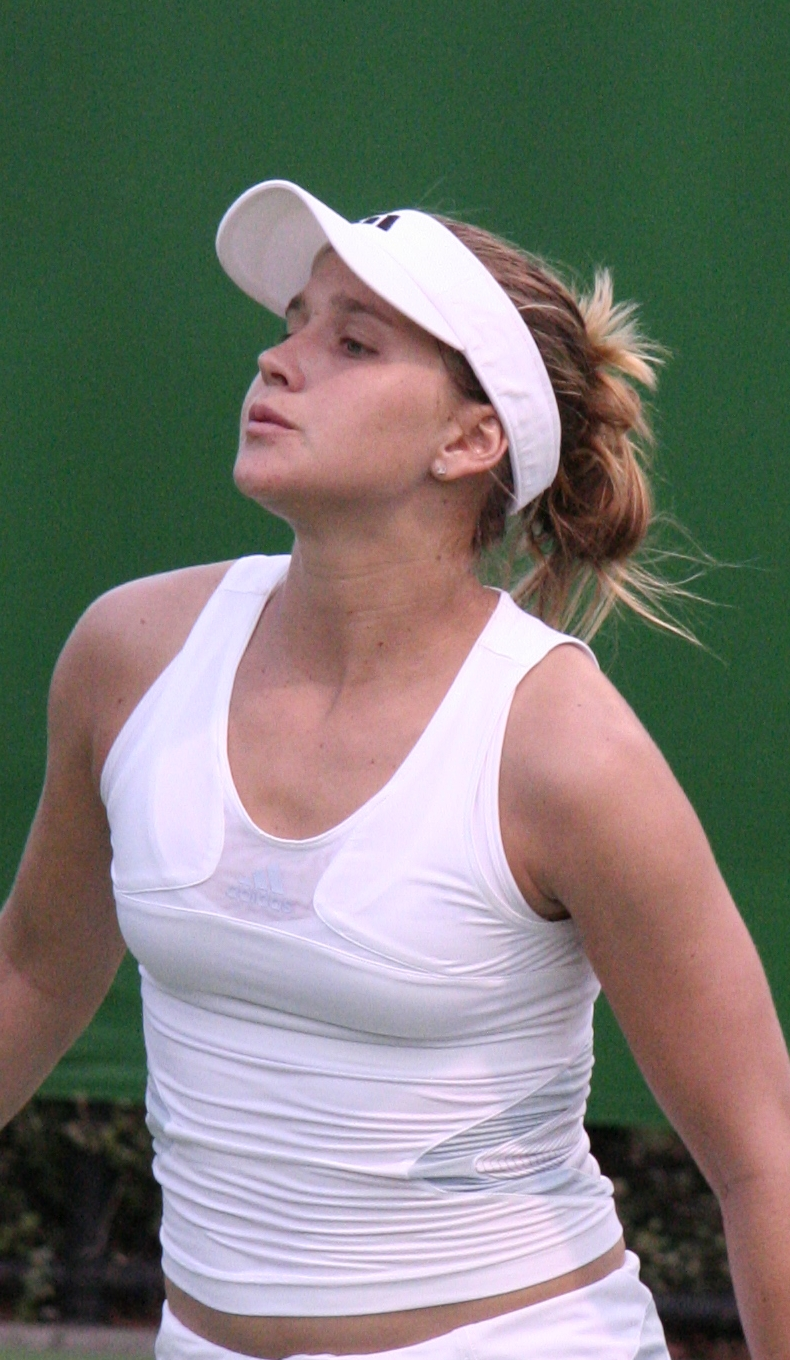 Ashley Harkleroad at the 2007 Australian Open, during her first-round womens double match, partnering Galina Voskoboeva.